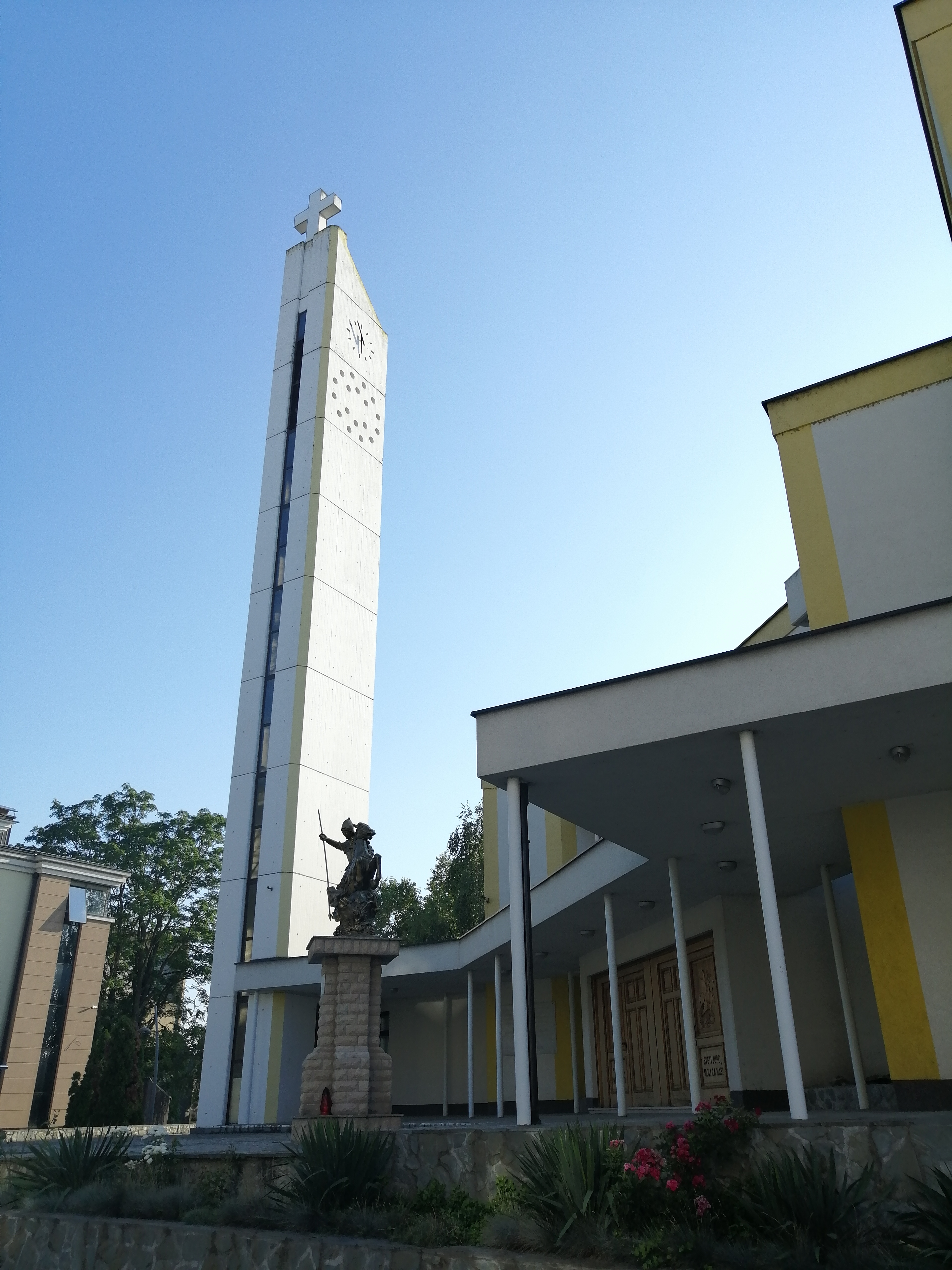 Katolicka crkva u Derventi.